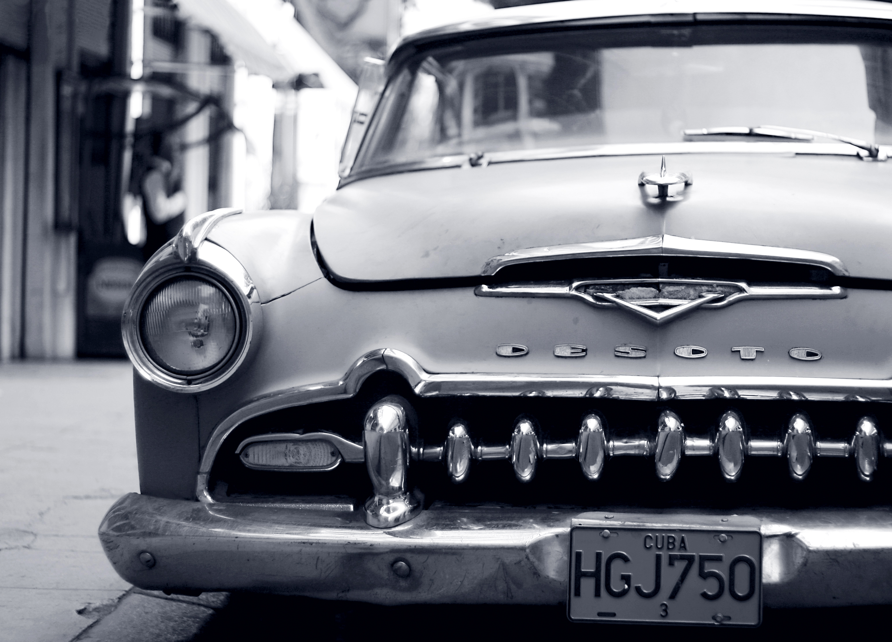 The streets in Havana are lined with cars, a beautiful mix between the old and the new. It is of course the old 1950s American cars that hold the most interest for most people, such as this 1955 DeSoto.